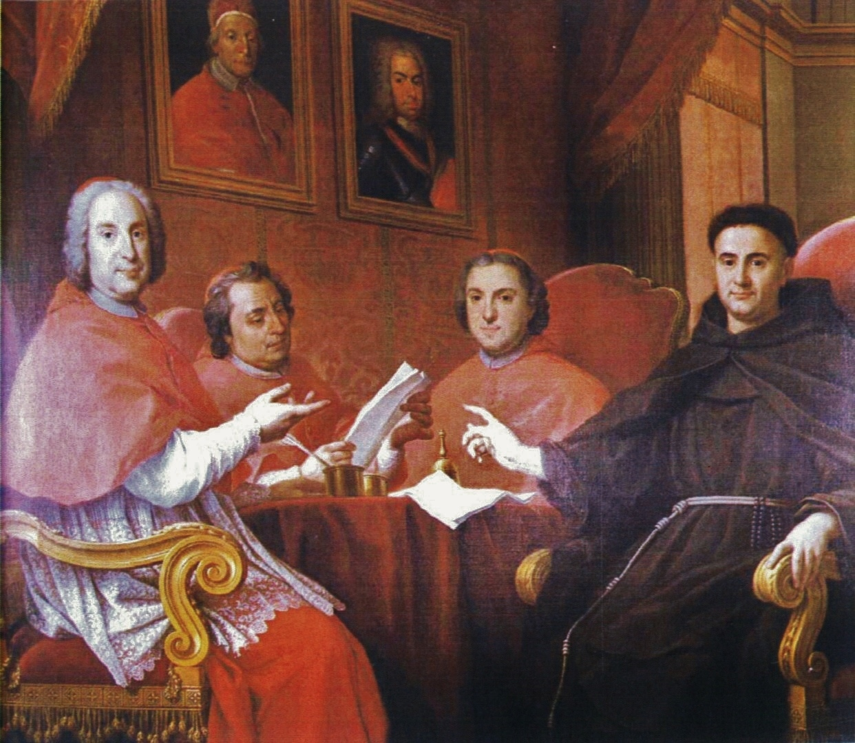 Father José Maria da Fonseca Évora and Cardinals Neri Corsini, Marcello Passeri, and Antonio Saverio Gentili, sign the concession of the cardinalate to the Lisbon Nunciature (the portraits on the wall depict Pope Clement XII and King John V of Portugal), in a painting, c. 1730, by Agostino Masucci.